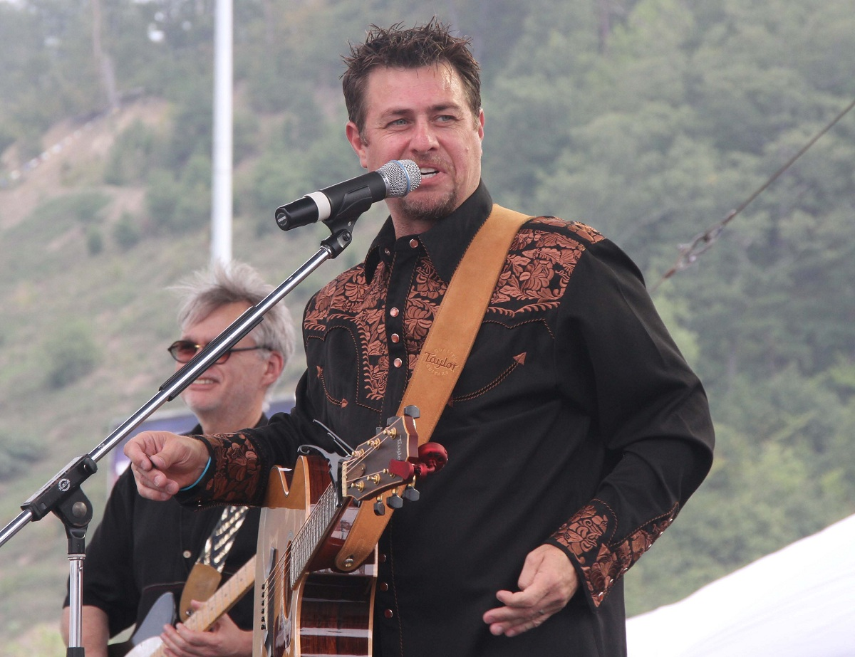 John Sines Jr in concert at Bristol Motor Speedway - August 2011